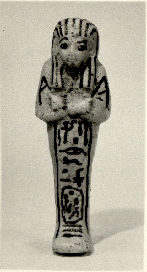 Shabti, Painedjem I